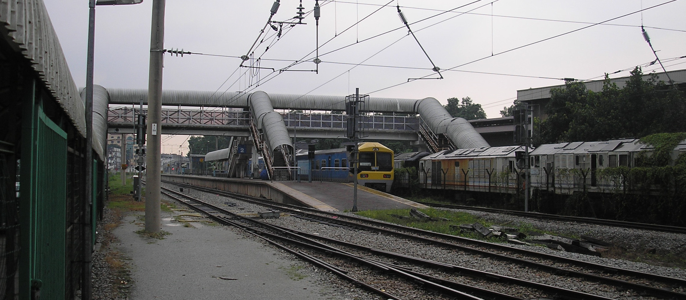 A view of the 1995 island platform assigned for the old Sentul station (Sentul-Port Klang Line), in Sentul, Kuala Lumpur Malaysia. This shot is taken towards the south. To the right is the old Sentul workshop.